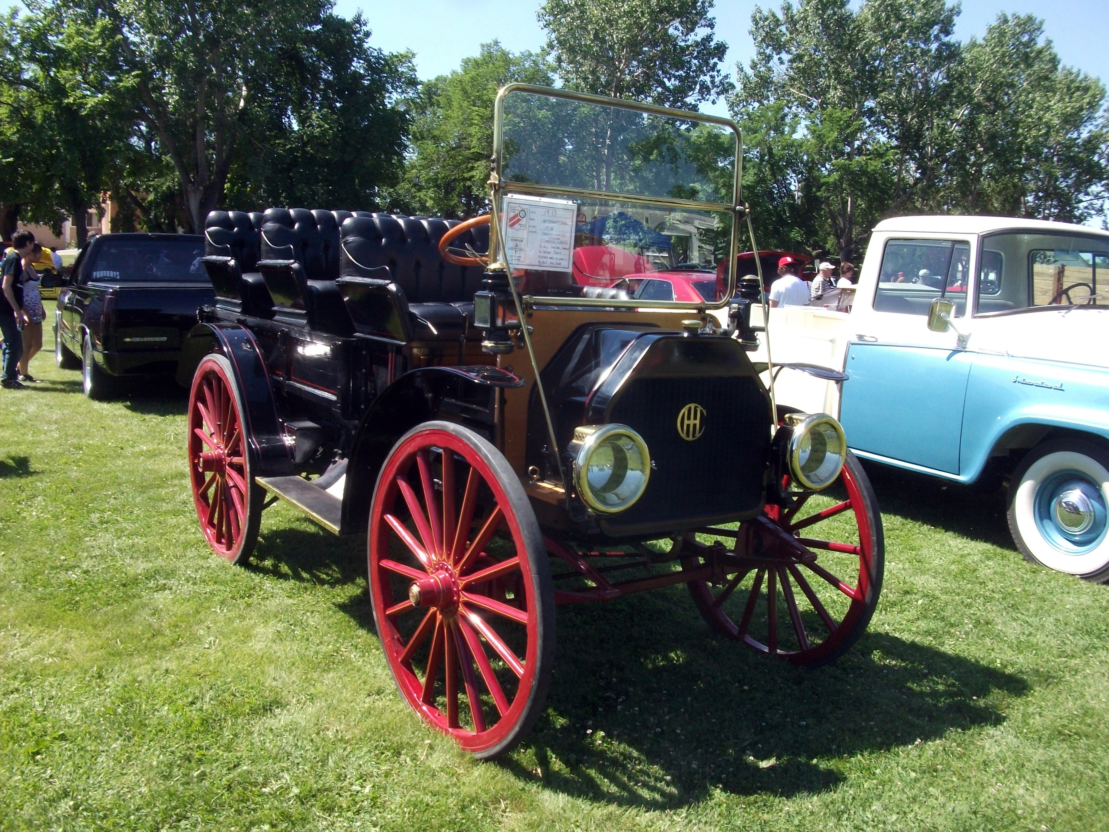 Fantastic old 1913 International MW. It is powered by a two cylinder engine.